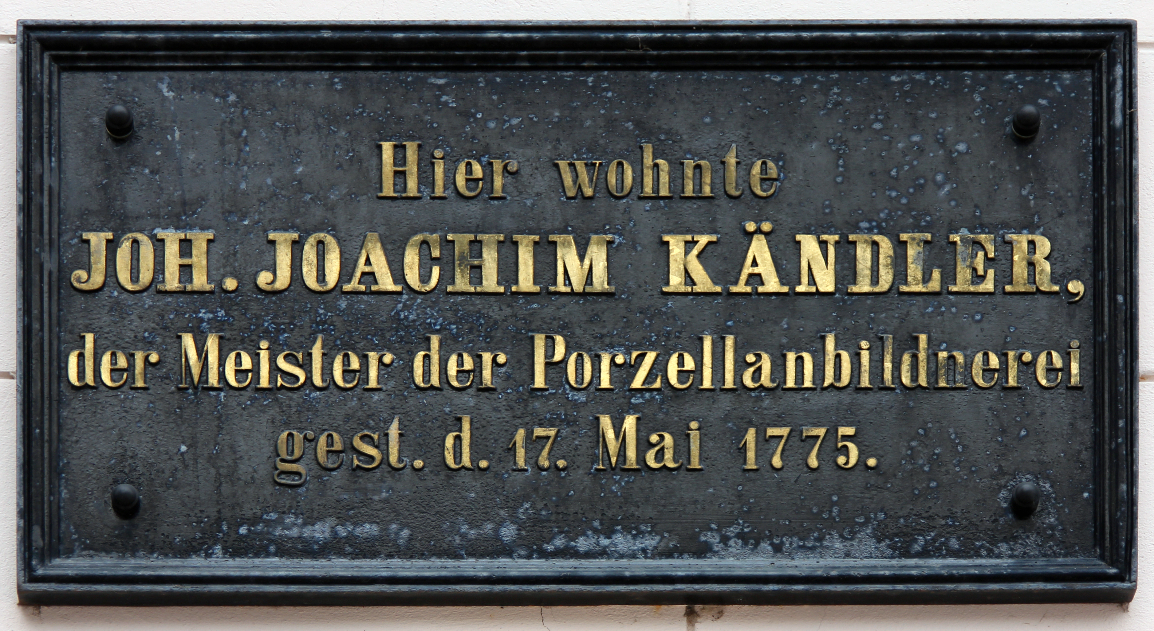 Memorial plaque, Johann Joachim Kändler, Domplatz, Meißen, Germany